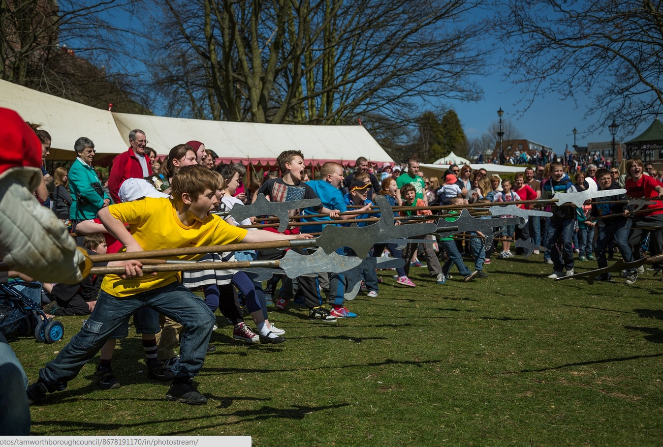 St George's Day celebrations, 2010